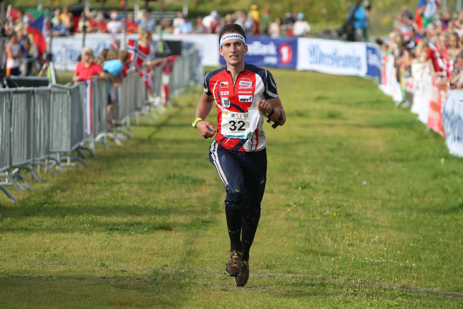 Michal Smola at World Orienteering Championships 2010 in Trondheim, Norway